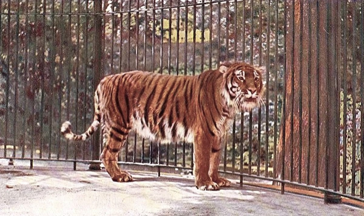 Captive Caspian tiger at Berlin Zoo, circa 1899 (color enhanced)